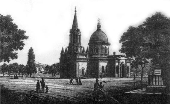 Lithography of second half of XIX century of the church of All Saints at Old Christian Cemetary of Odessa. Cemetary with all thombs and the church was destroyed by bolshevists during early 1930-s